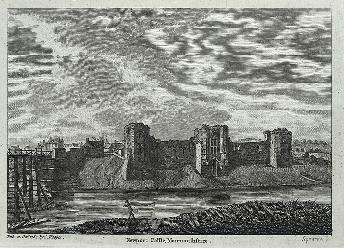 A view of the ruins of Newport Castle with a bridge in the foreground.